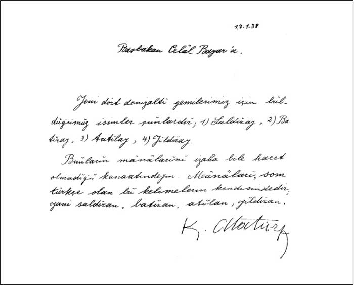 Direction of Atatürk for naming submarines.